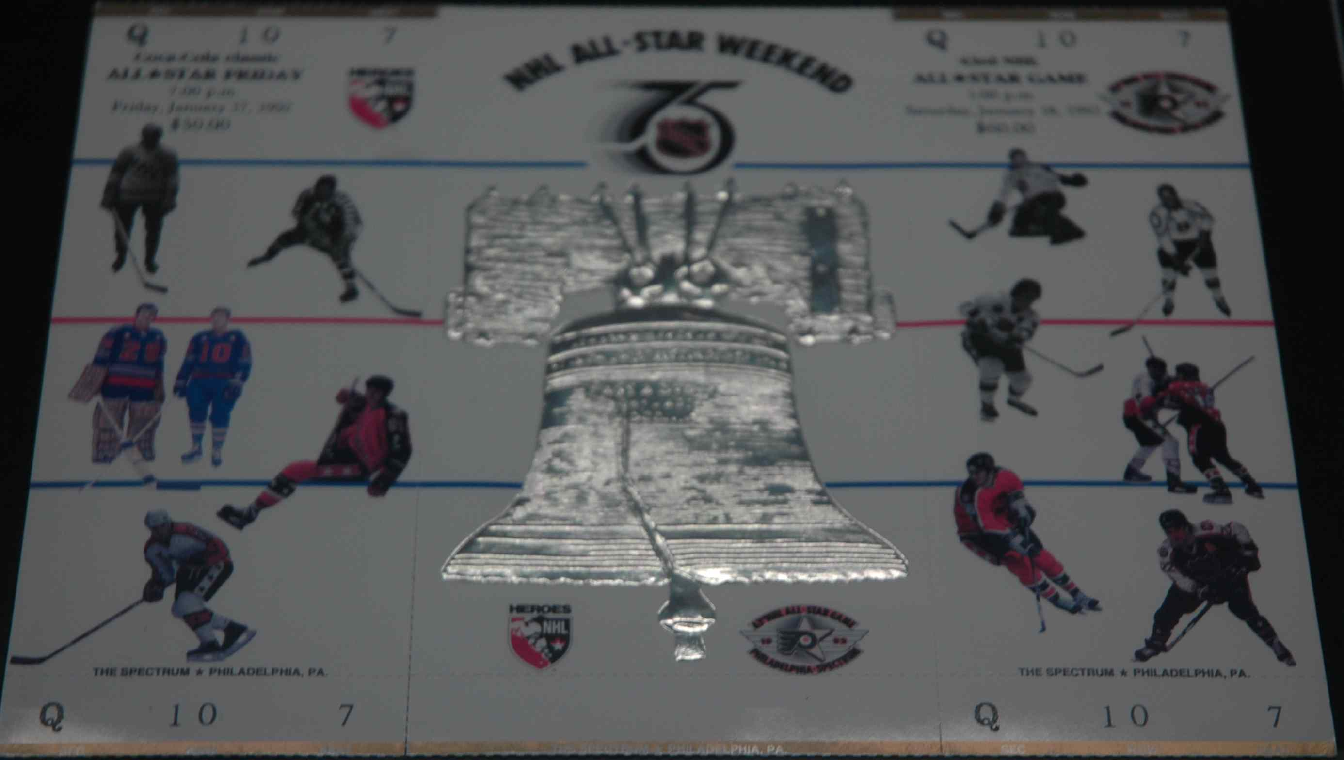 Ticket for the NHL All-Star Game 1992, shown in the Hall of Fame in Toronto